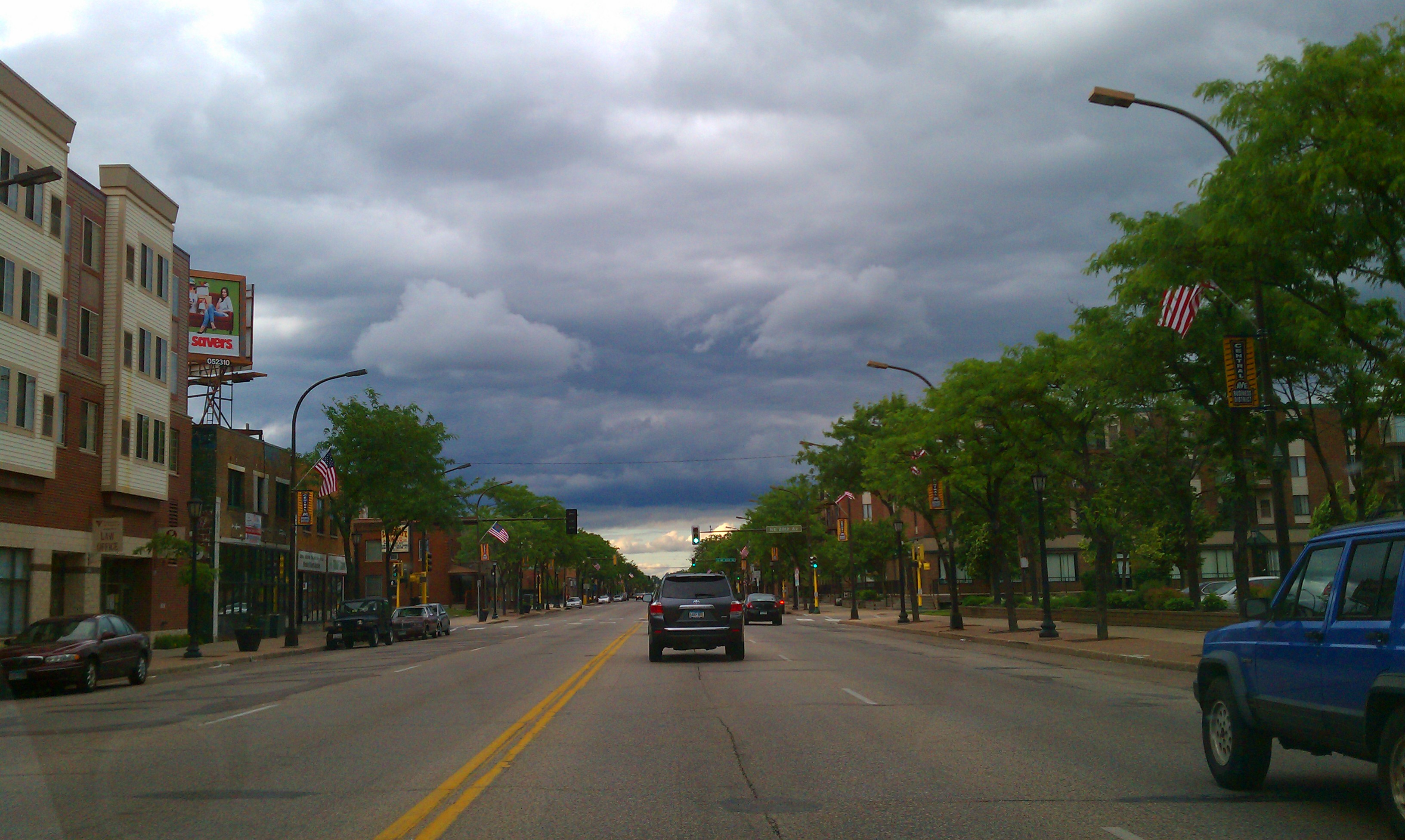 The lovely and exciting Central Avenue, Northeast Minneapolis. Please credit Sarah Kolb-Williams and link to Thank you!